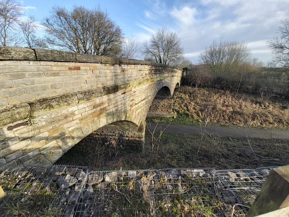 My own